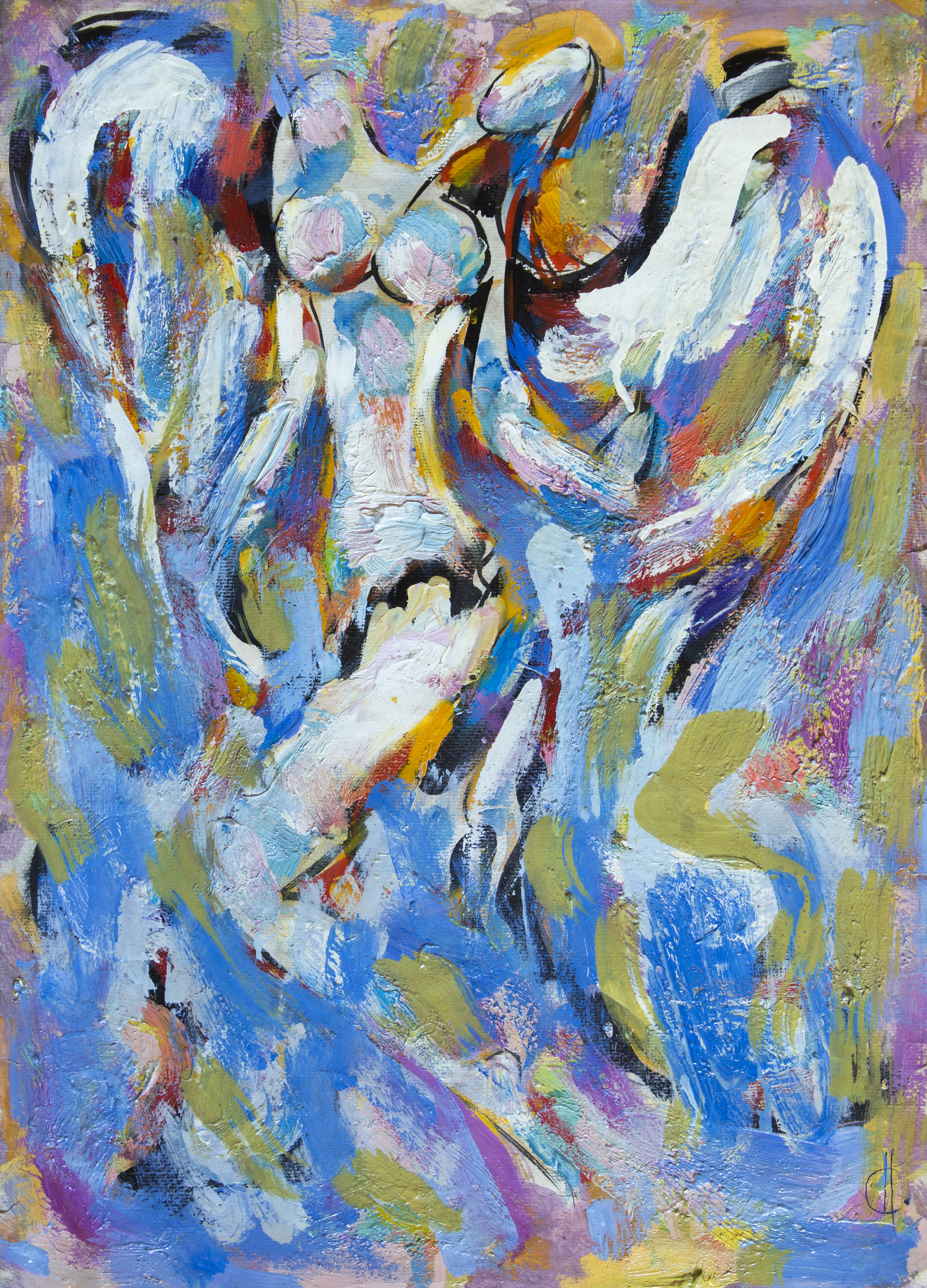 Alex Salaueu Muse 50 cm x40 cm